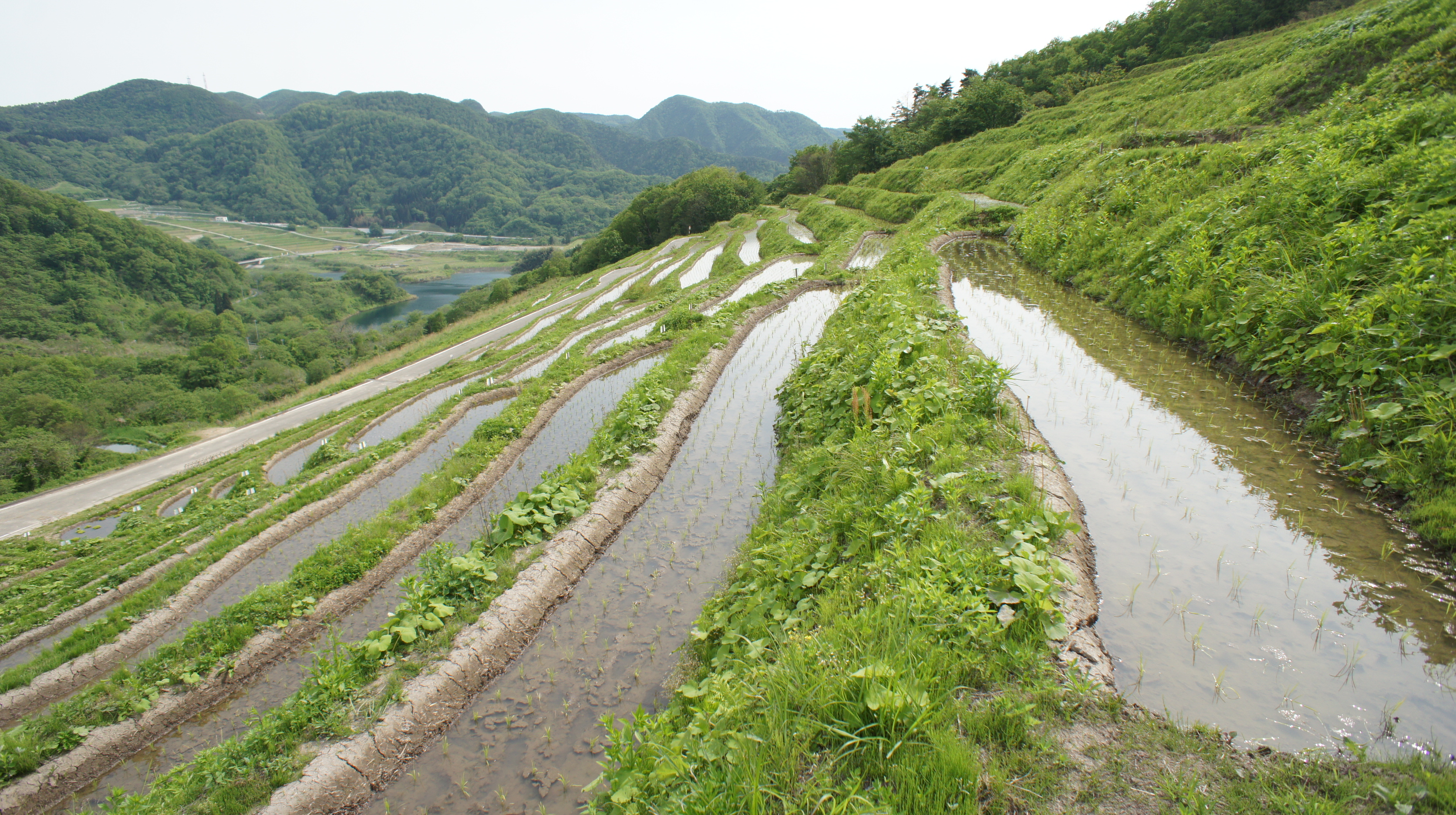 小倉千枚田 Full of small rice paddy